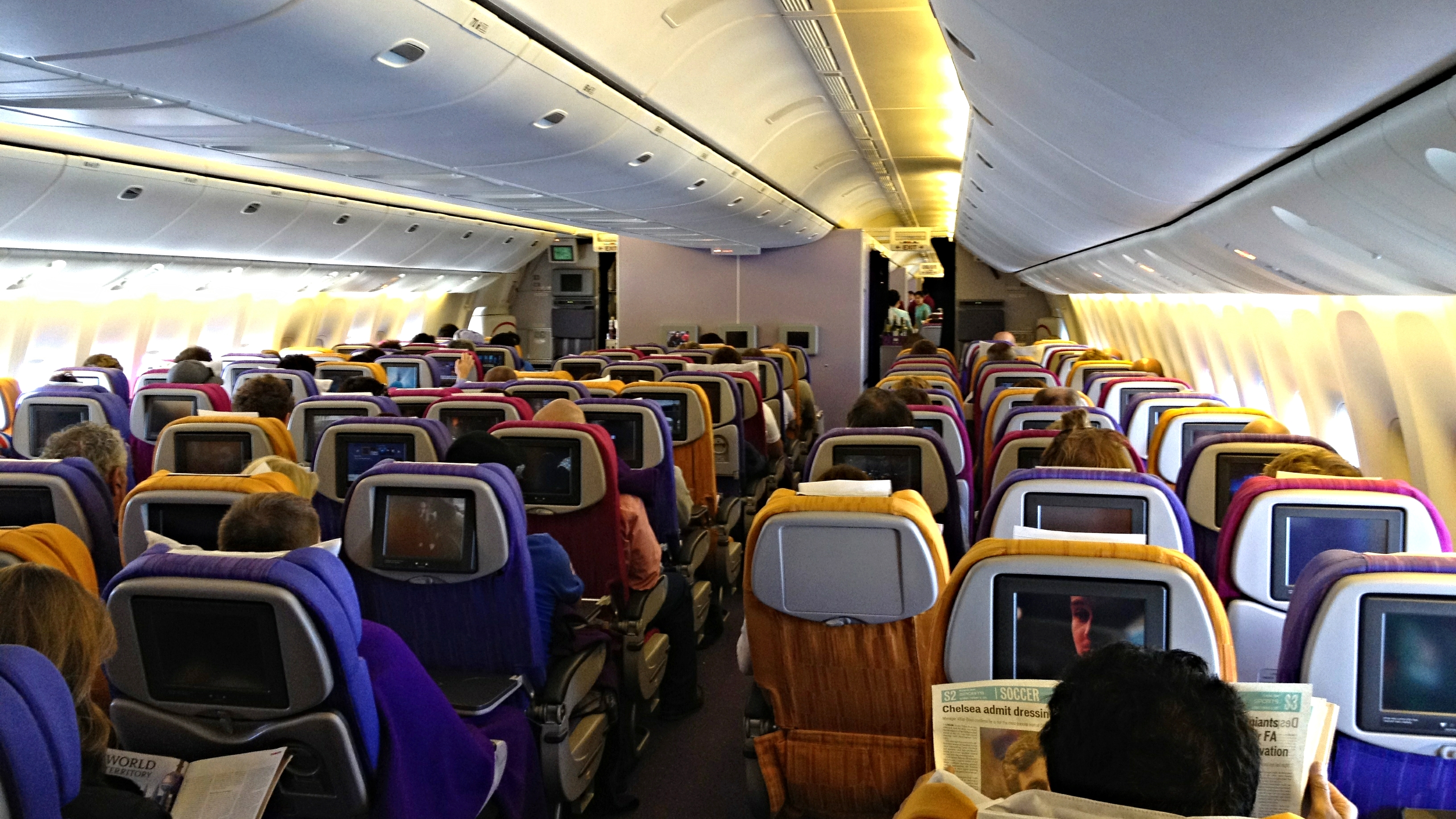 Thai Airways Economy Class on Boeing 777-300.